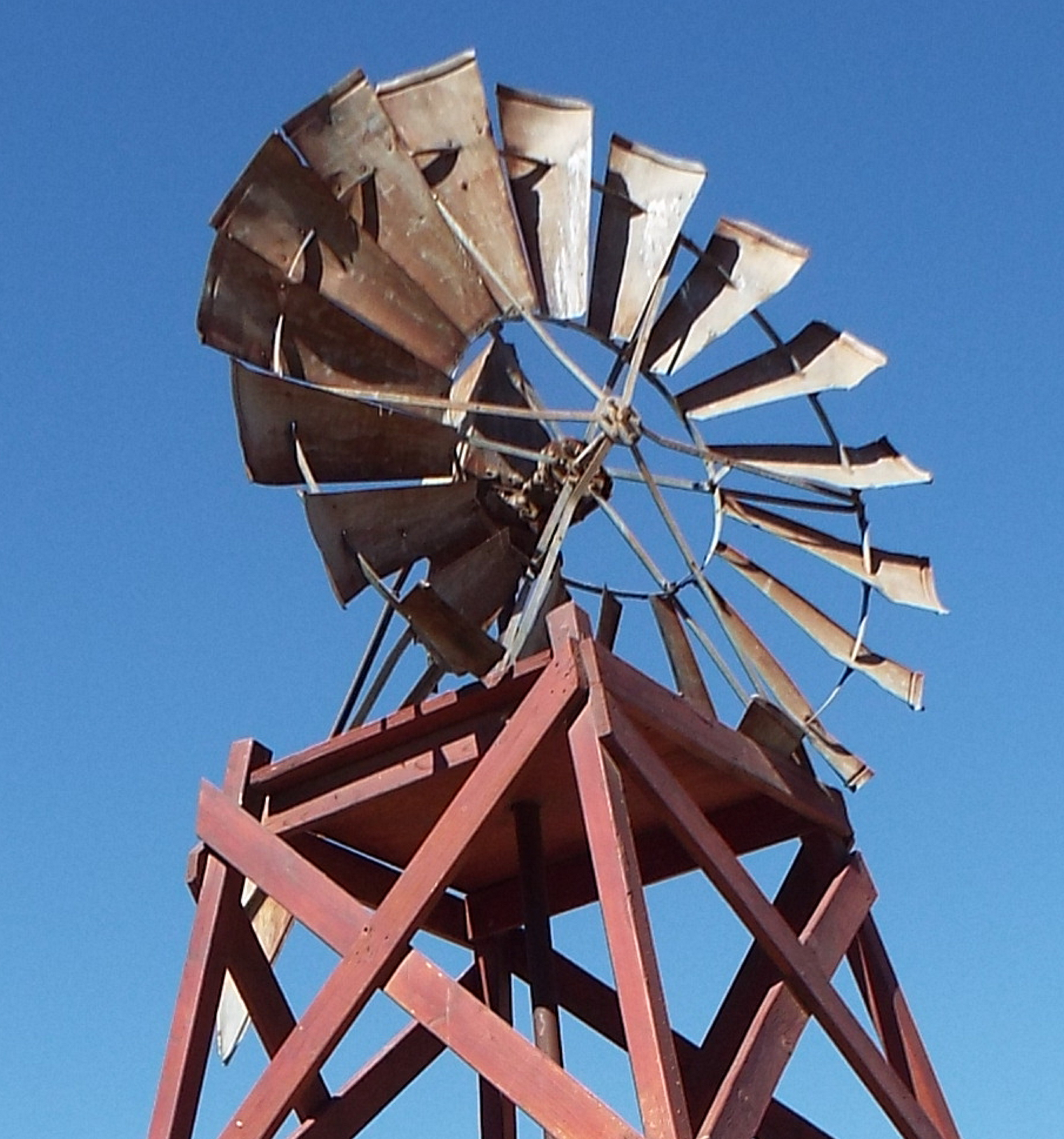 A Steel Star open back-geared steel windmill located in the historic Tolmachoff Farm located in Glendale, Az. It was manufactured by Flint & Walling Manufacturing Co., Kendallville, IN., circa 1910.